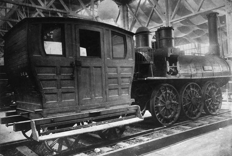 "The Samson", Canada's first locomotive 1838. "The Nova Scotia Pioneer" Canada's 1st Passenger Coach 1838.